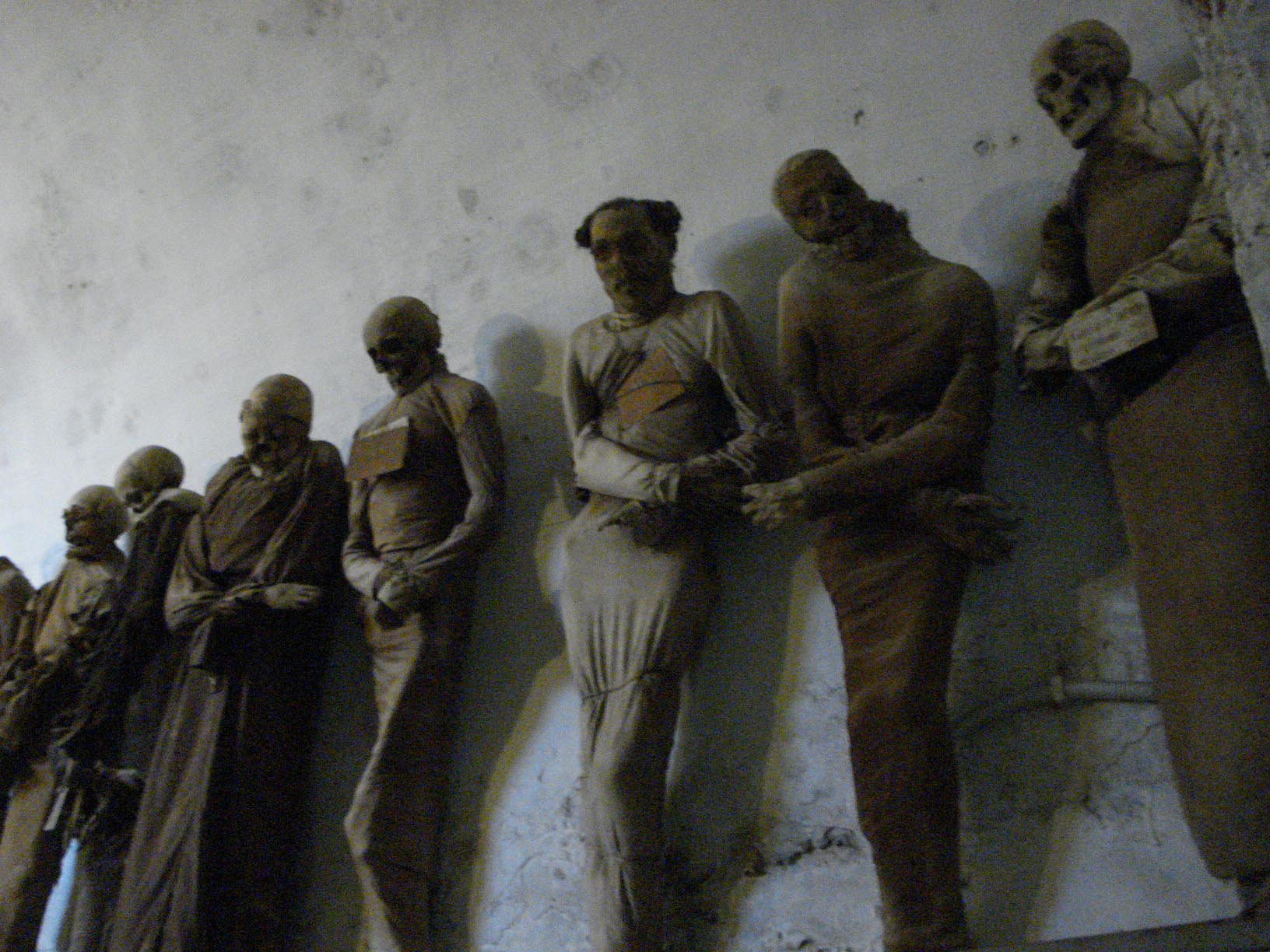 Professionalists' Catacombs in Capuchins' Catacombs